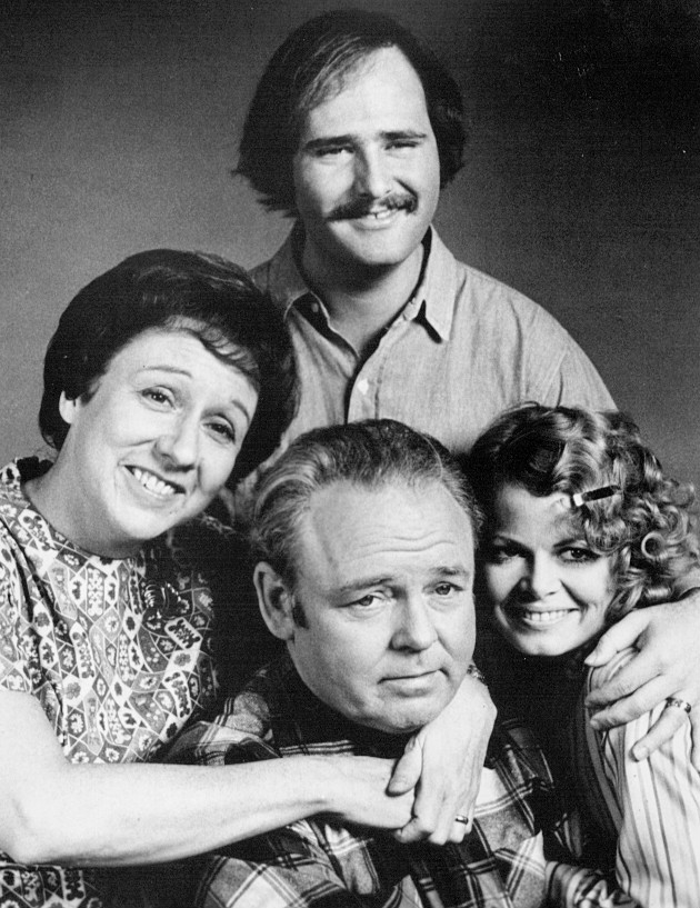 Cast photo from the television program All In the Family. Back: Rob Reiner (Mike Stivic). Front, from left: Jean Stapleton (Edith Bunker), Carroll O'Connor (Archie Bunker), Sally Struthers (Gloria Bunker Stivic).